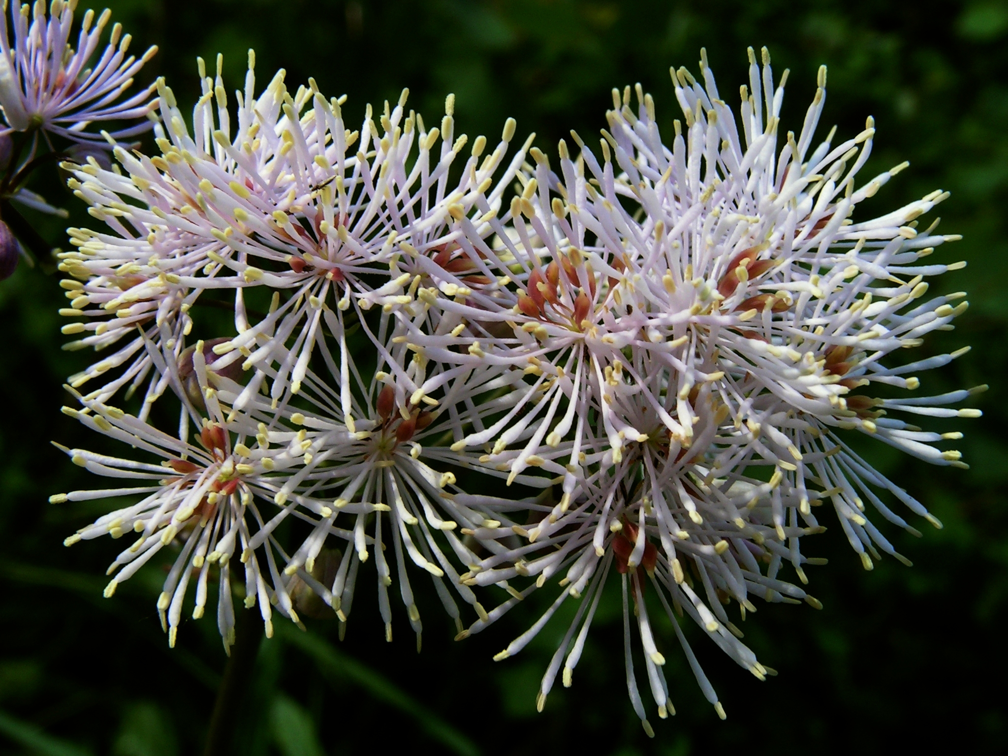 Flowers of Thalictrum aquilegiifolium. Moscow region, Russia.